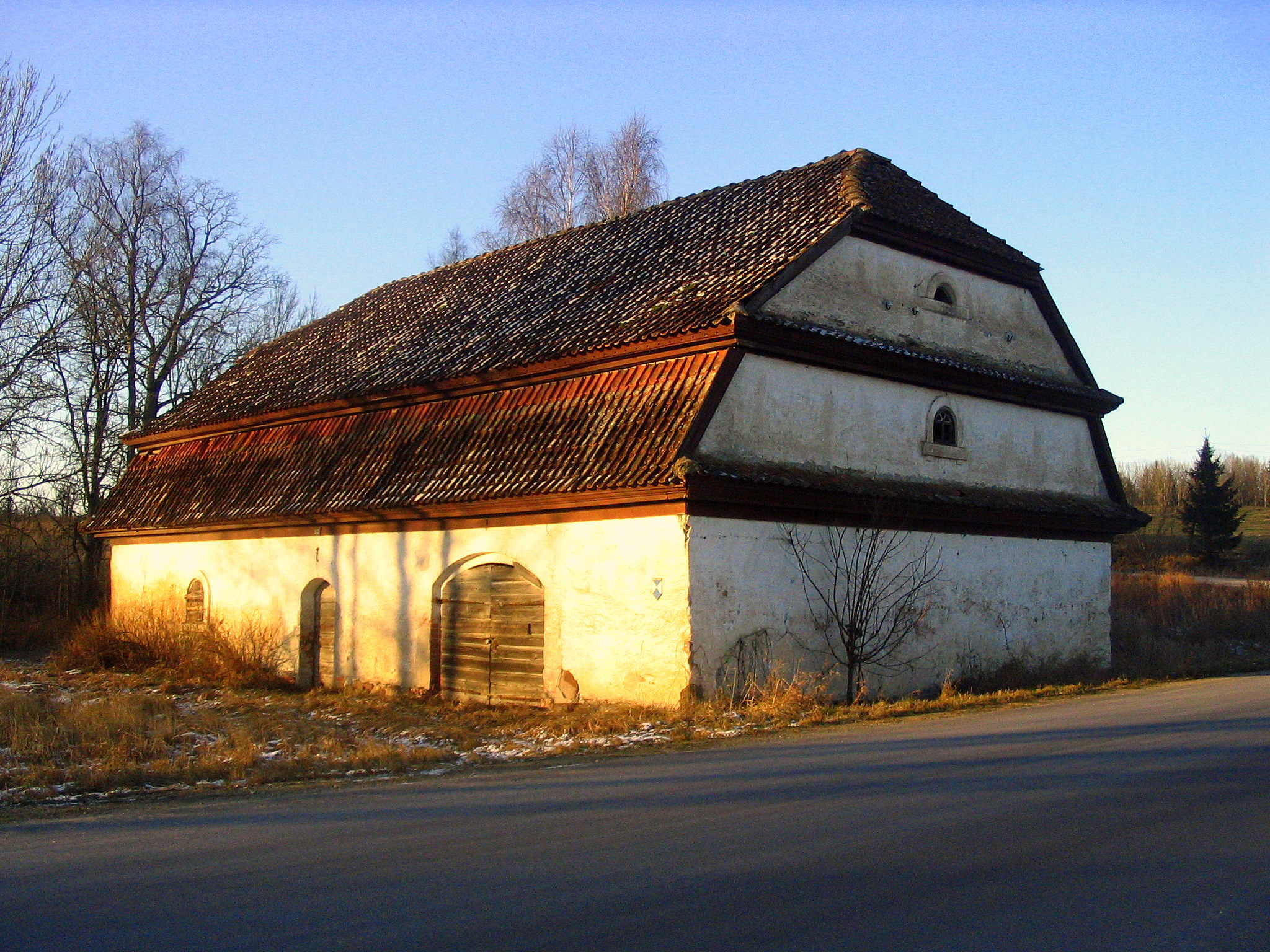 Three-story Barn on Padure Manor estate